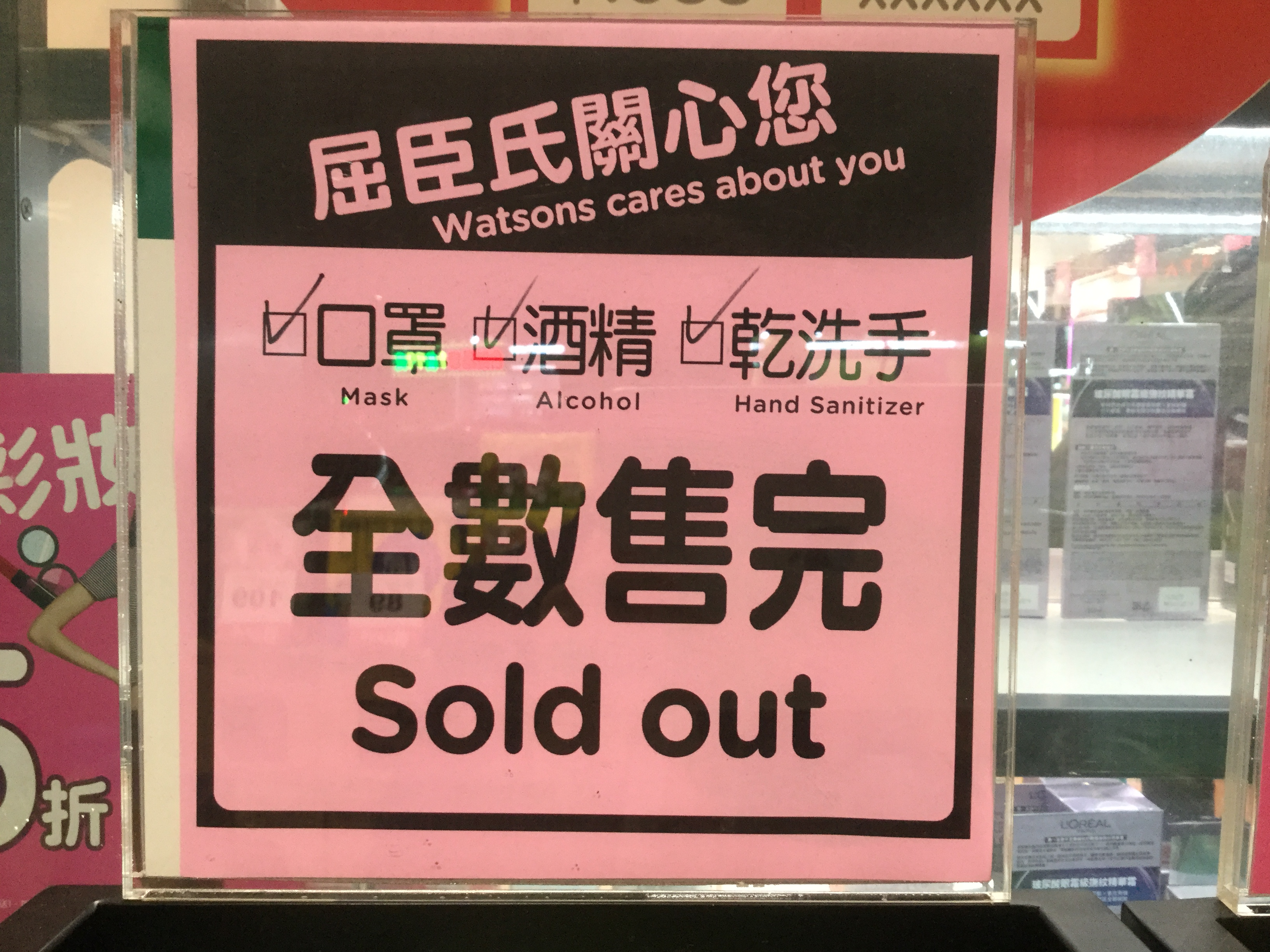 A sign that says that masks, alcohol and hand sanitizers are sold out in Watsons stores in Taiwan.